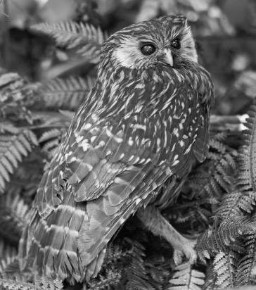 Whekau or laughing owl. Photographed (in the Wellington Region?) between 1889 and 1910 by Henry Charles Clarke Wright (1844-1936). "Trevor Worthy (an expert on the subject) has stated that the photo is of a bird that was in the captivity of Walter Buller. The photo was taken in 1892 - of one of a pair of birds shipped to Rothschild." This bird belonged to Buller and was photographed during 1892 shortly before being shipped from New Zealand to a new owner, Walter Rothschild, in England.